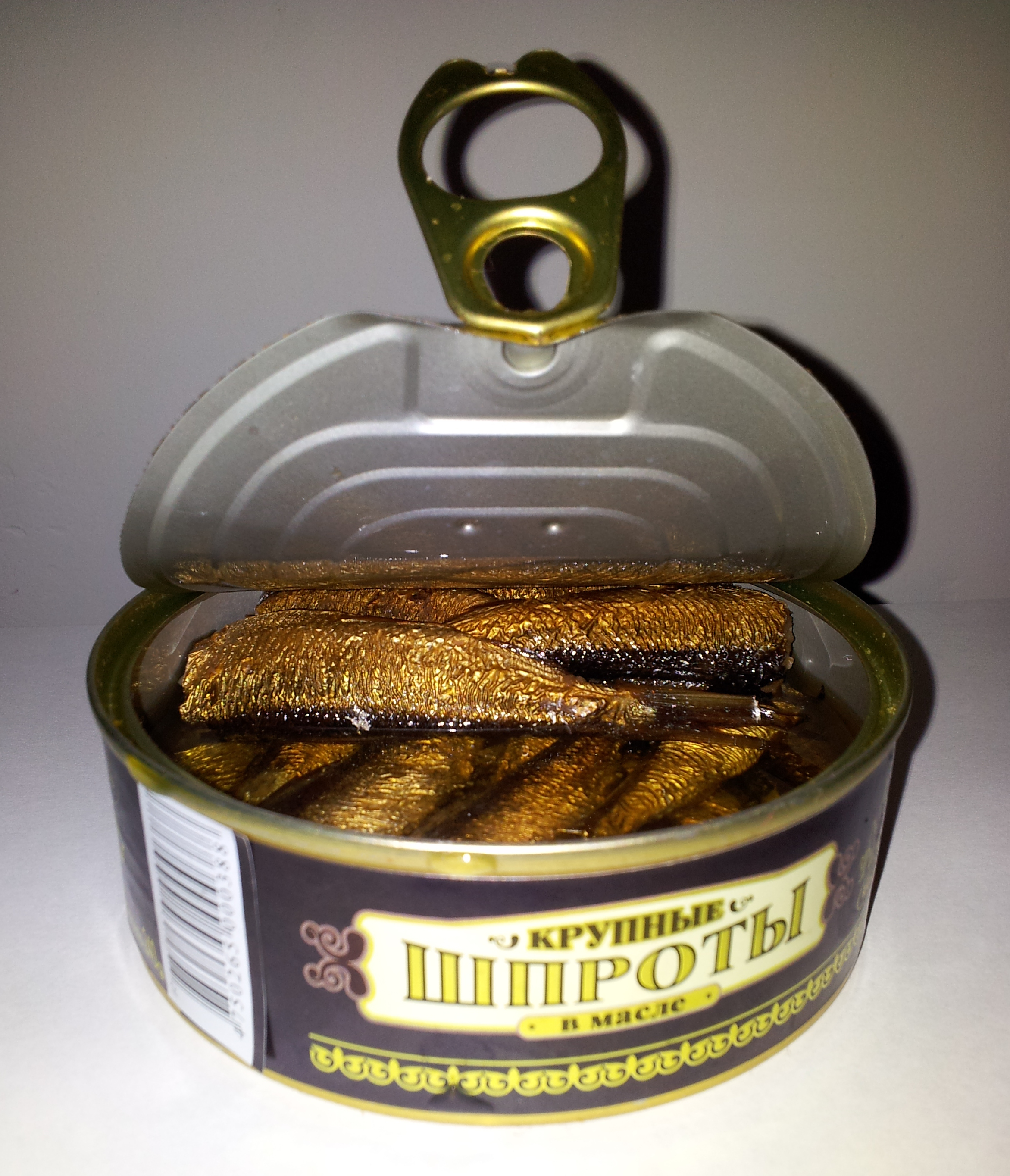 small dead fish in metal pot with oil